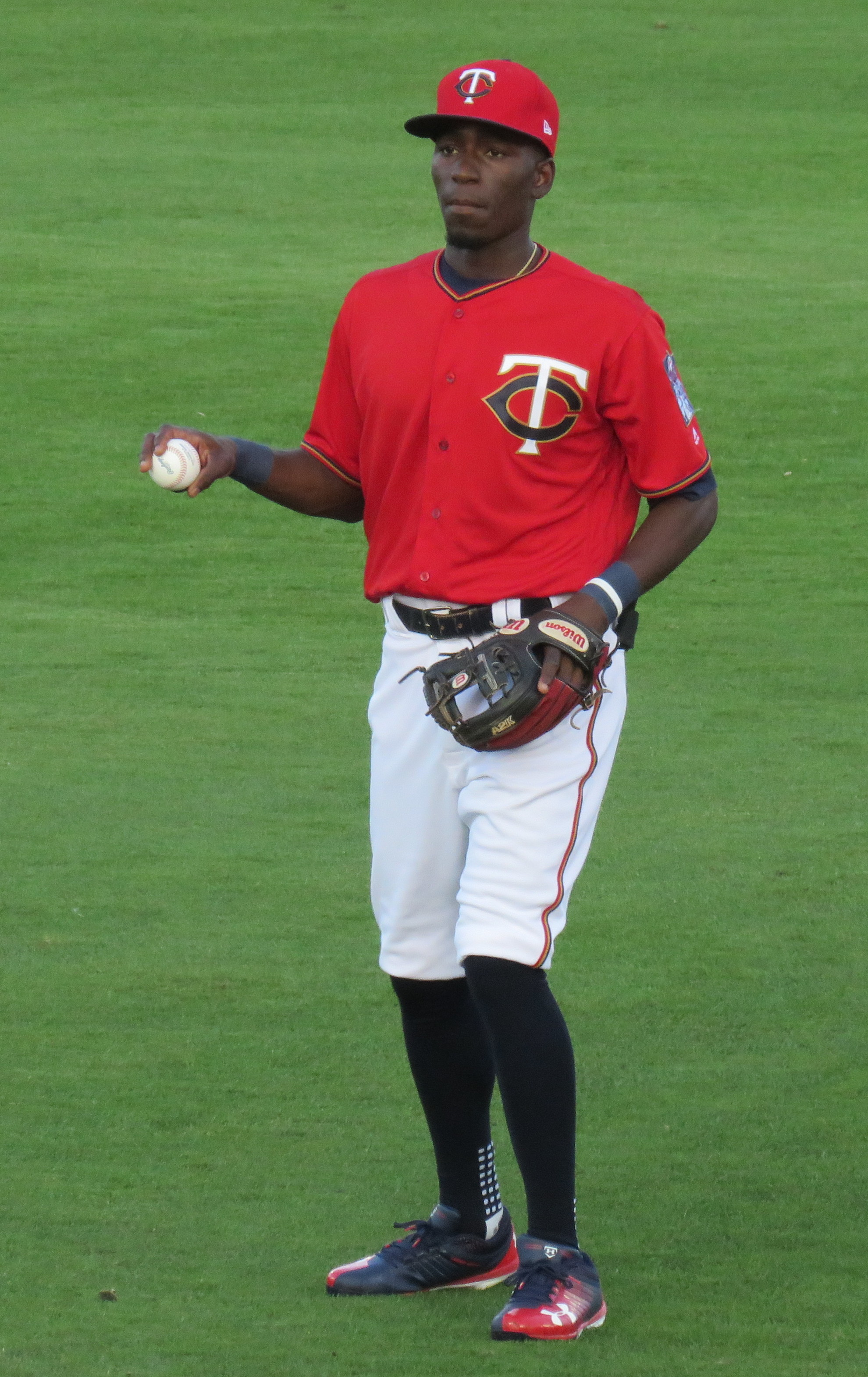 Nick Gordon at Twins spring training in 2018